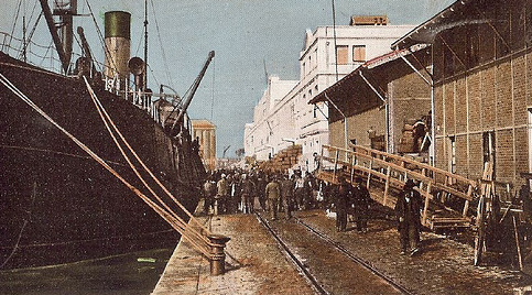 The Thessaloniki Customs House, now Macedonia Passenger Terminal, at the Port of Thessaloniki, Greece.